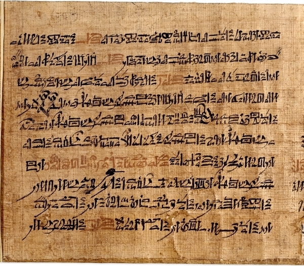 Sheet from the Tale of Two Brothers, Papyrus D'Orbine Sheet from the Tale of Two Brothers, Papyrus D'Orbiney. From Egypt. End of the 19th Dynasty